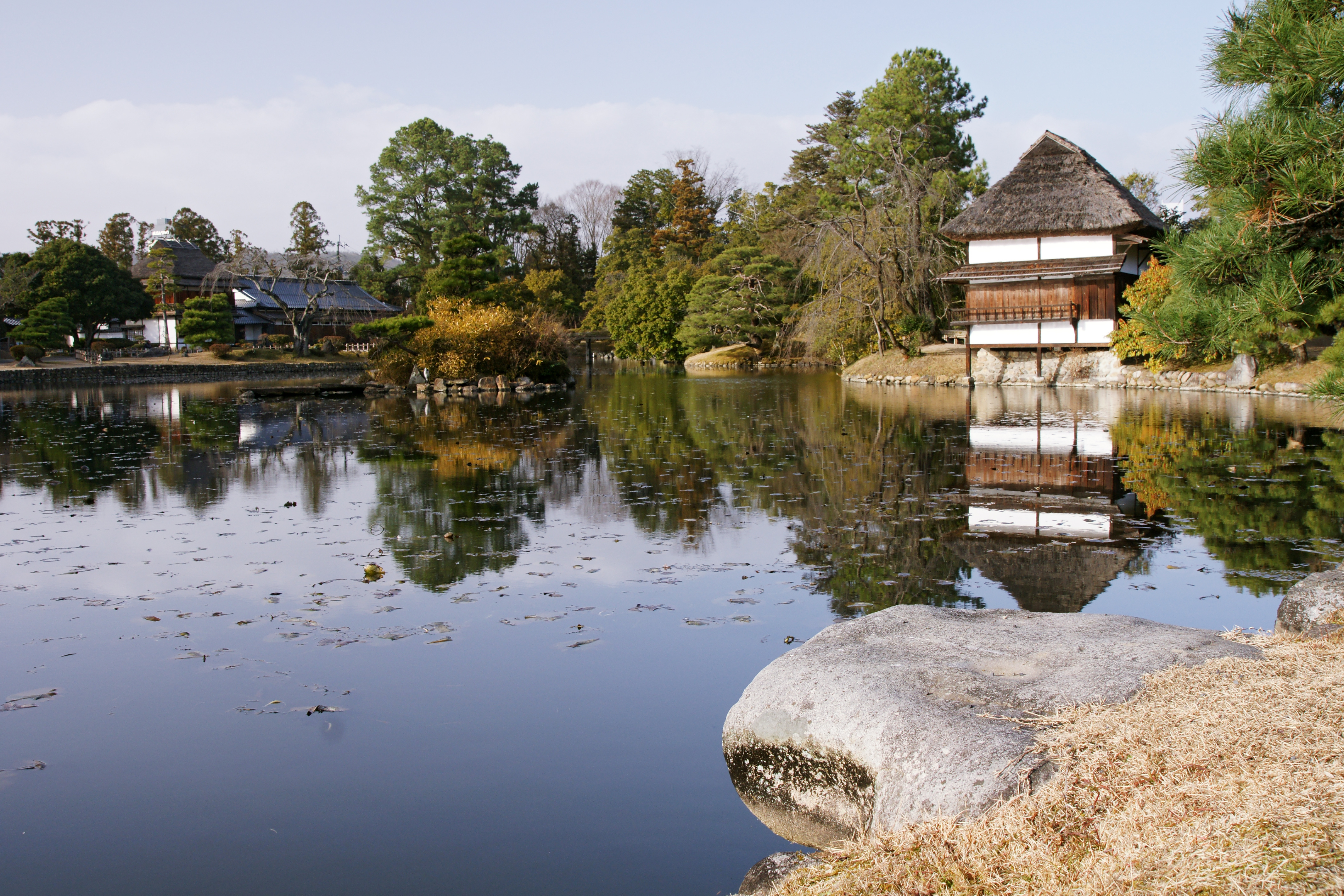 Shurakuen in Tsuyama, Okayama prefecture, Japan.